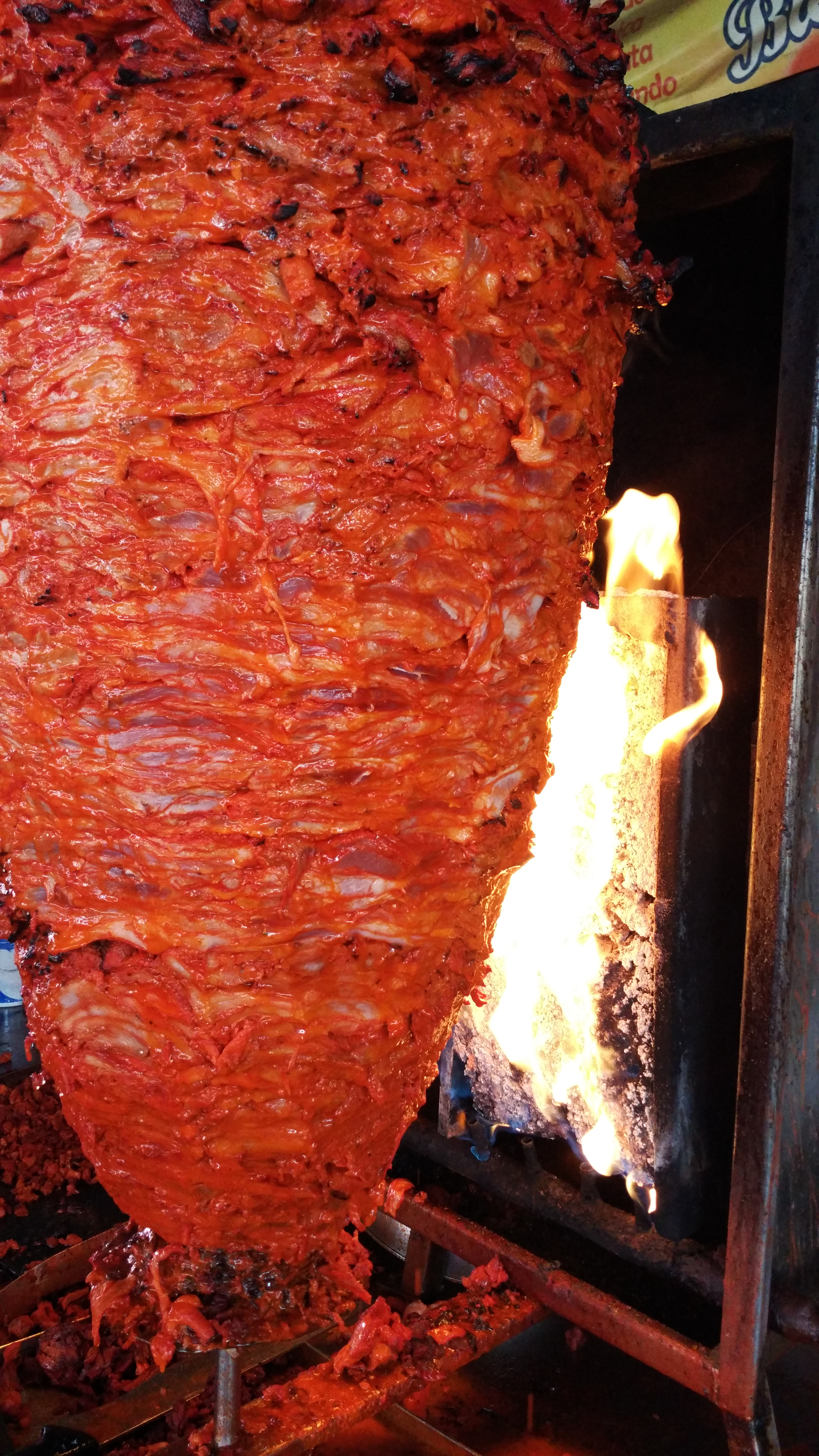 A stack of all pastor meat cooking